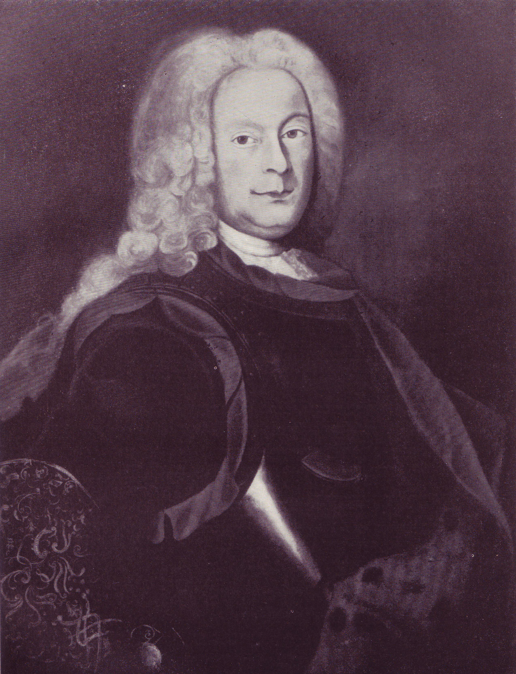 Portrait of Christian Karl Reinhard of Leiningen-Dagsburg-Falkenburg (1695-1766)